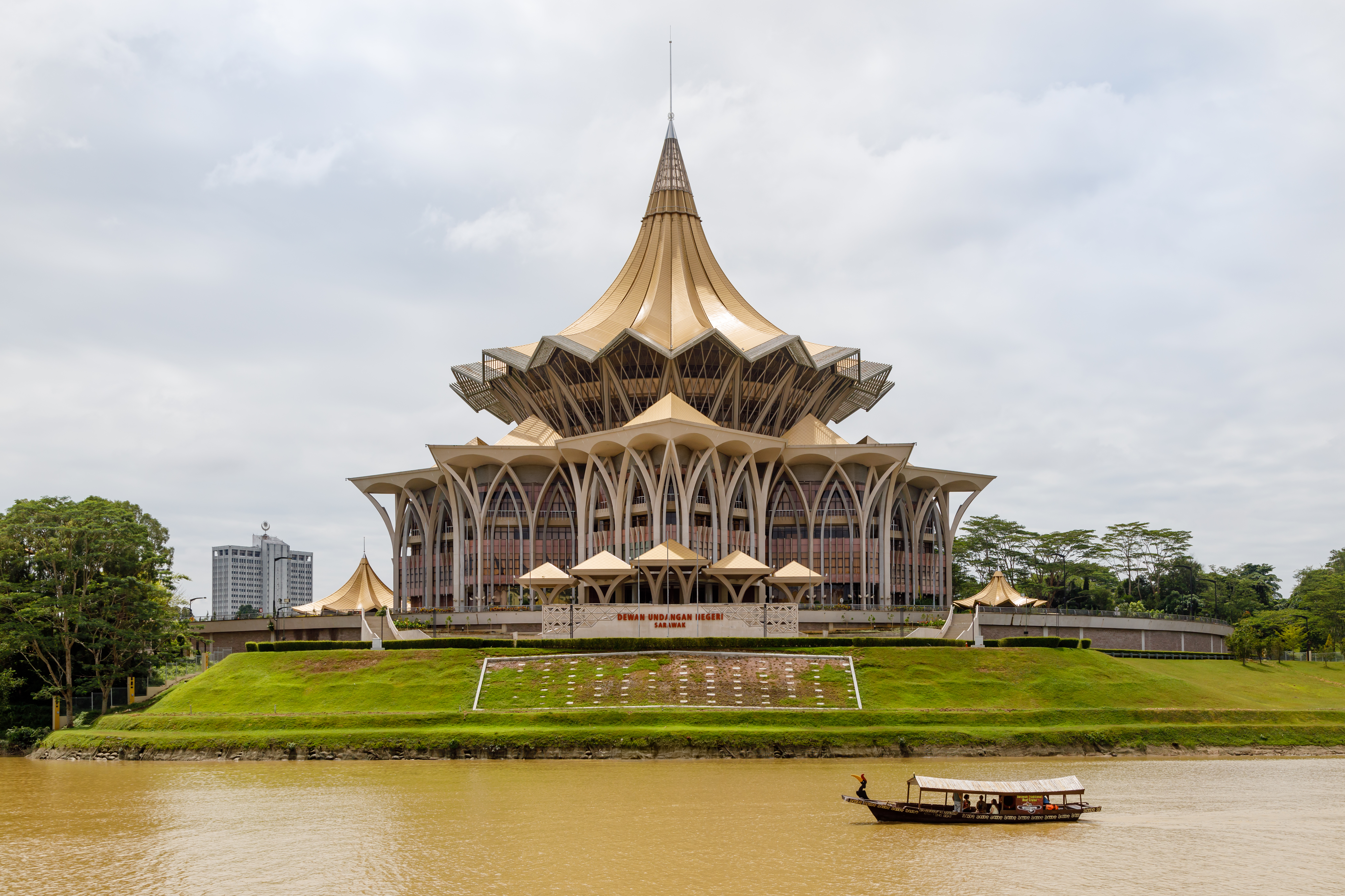 Kuching, Sarawak, Malaysia: Sarawak State Assembly building (Dewan Undangan Negeri Sarawak)